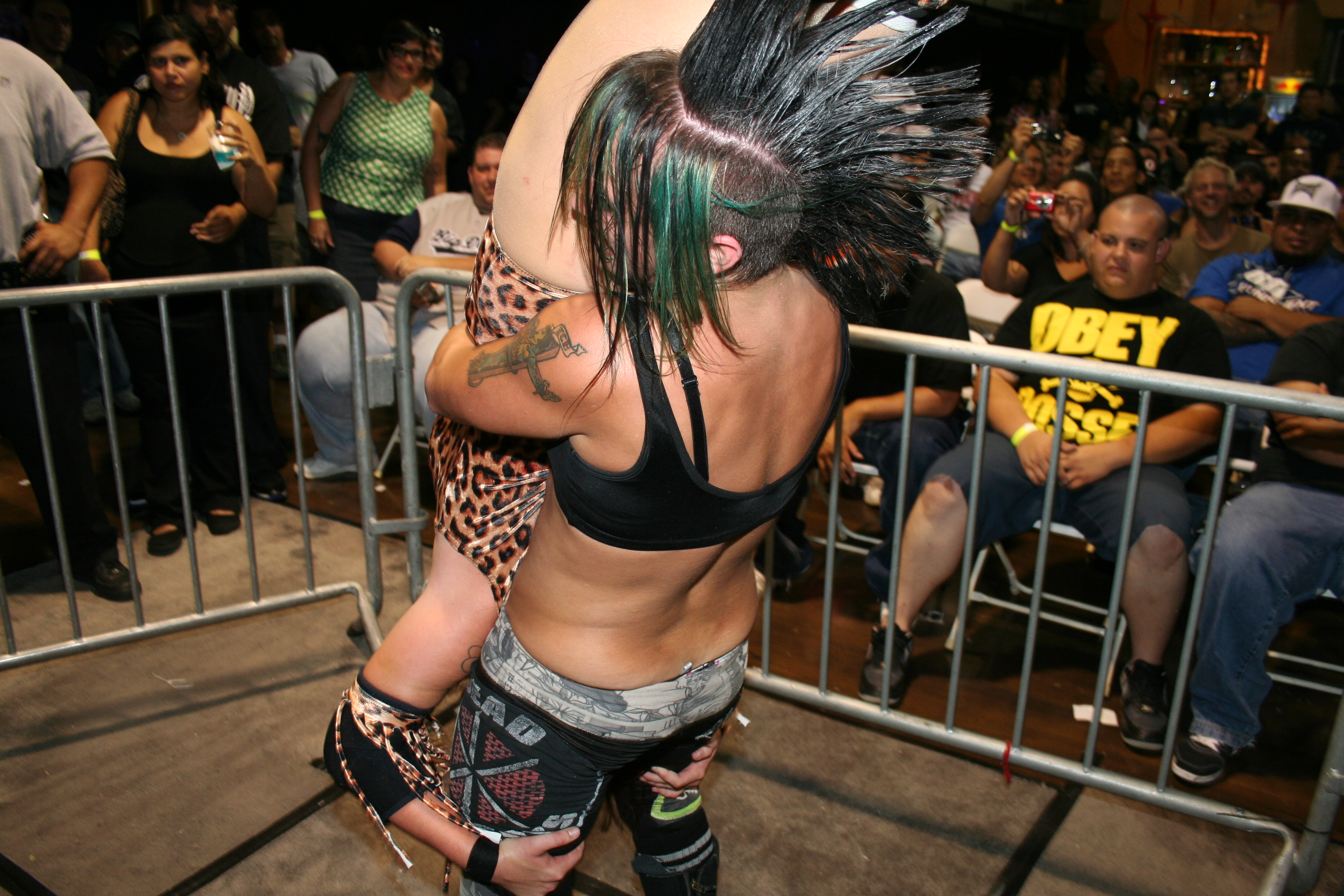 Professional wrestler Christina Von Eerie performing a piledriver on the Fabulous Thunderkitty at an Xtreme Pro Wrestling event